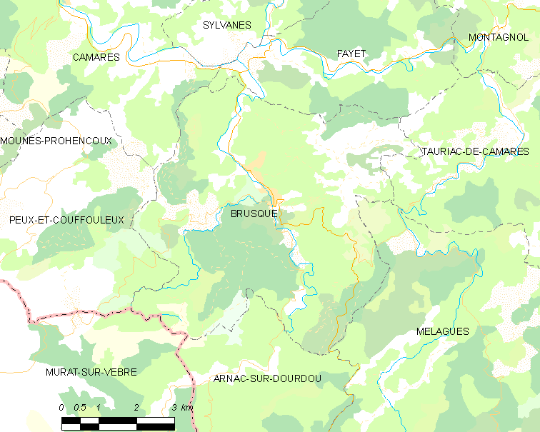 Map commune FR insee code 12039.png - Brusque (Aveyron)